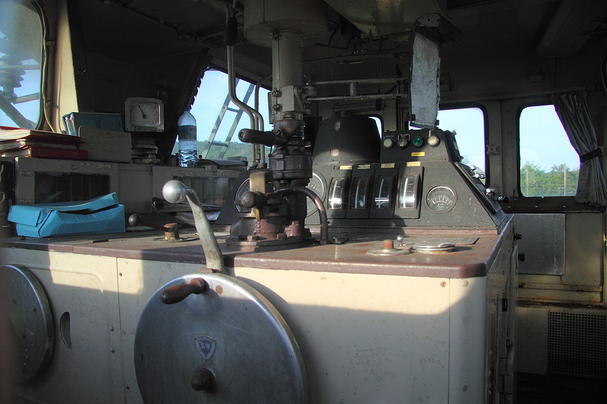 Inside you can still see a bottle of water that was most probably left behind by the last traindriver ;-)